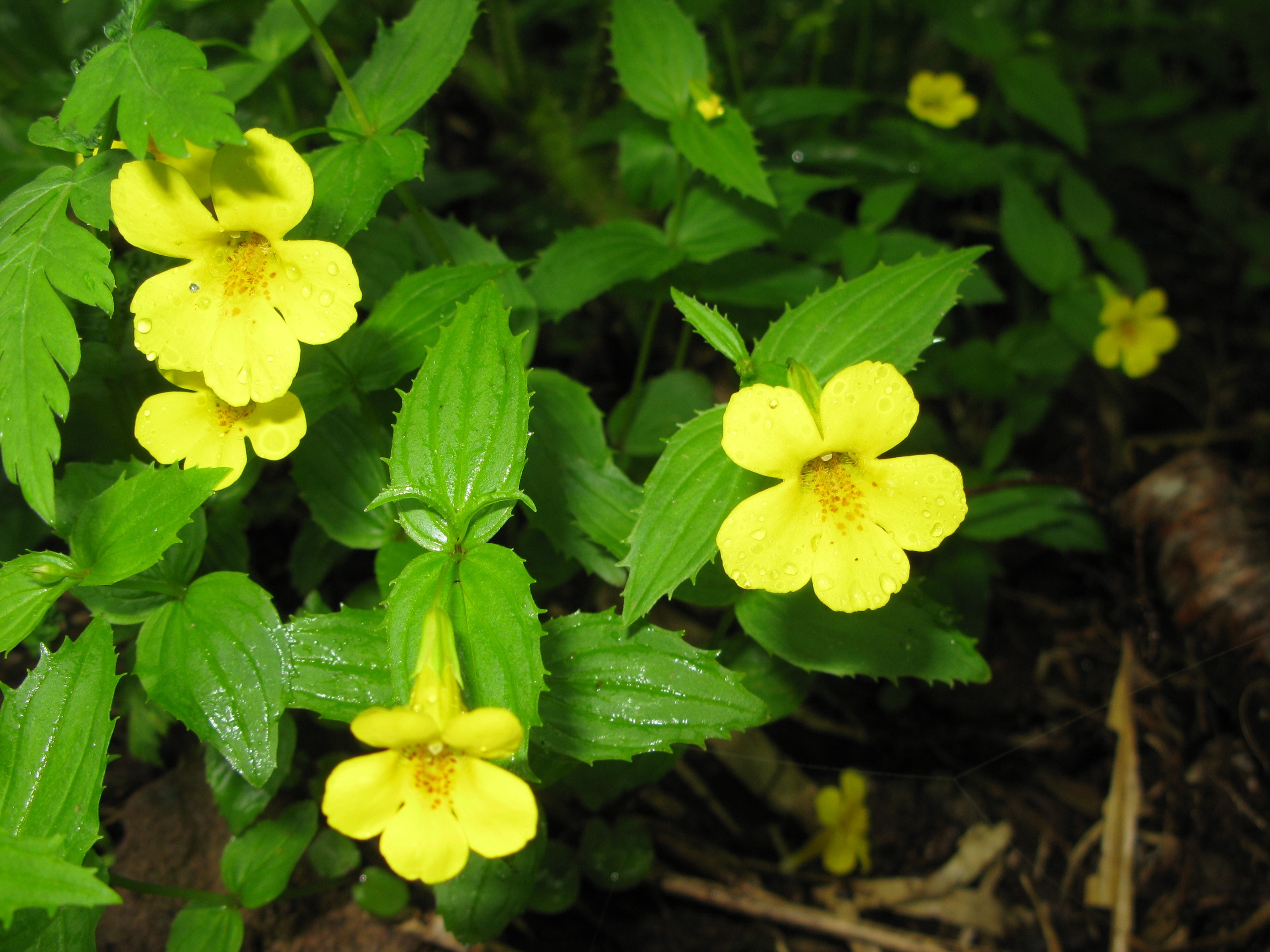 Mimulus sessilifolius, Mount Hiuchi, Fukushima pref., Japan